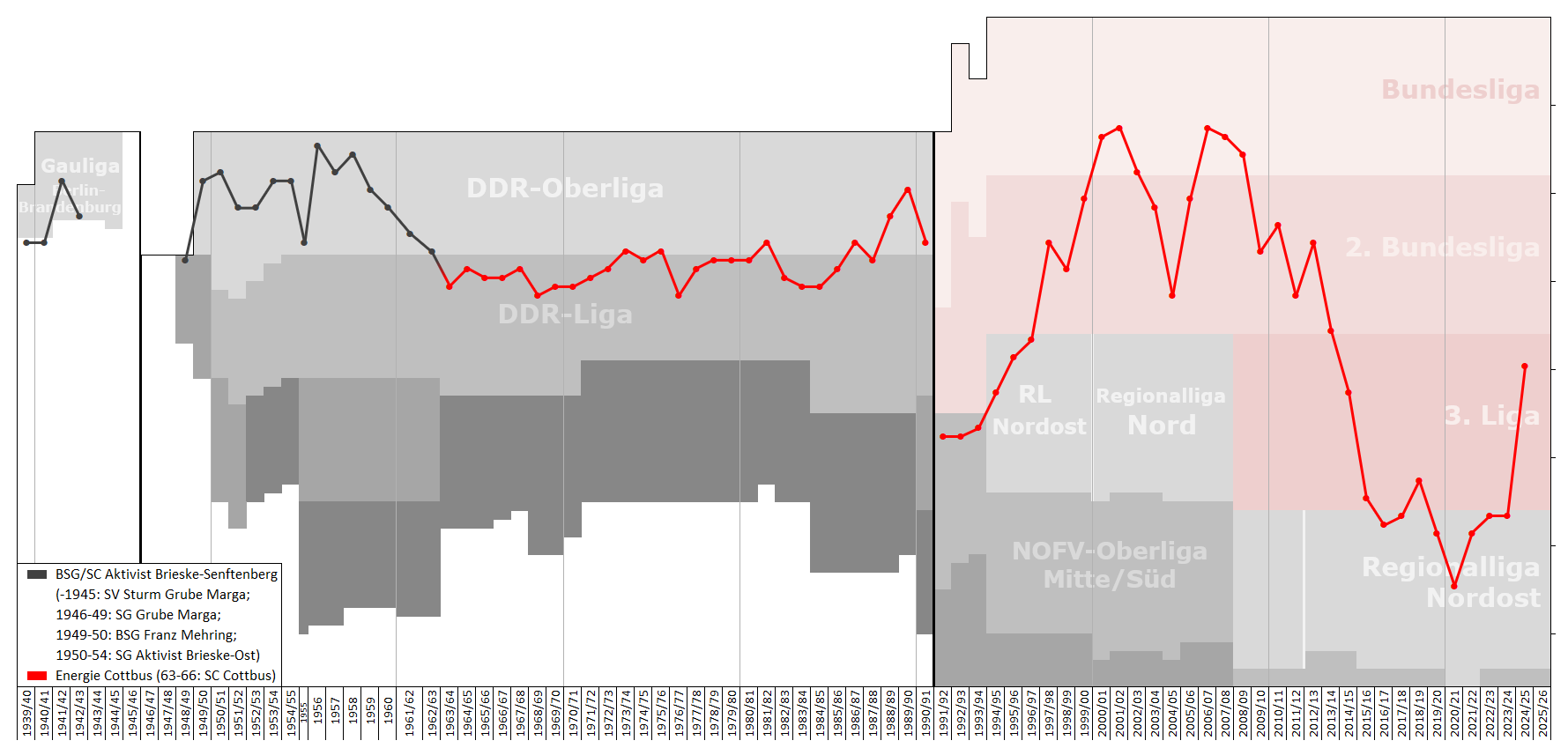 Chart of end-season table positions of Energie Cottbus in the football league system of Germany and GDR. Data source: RSSSF, wikipedia, f-archiv.de, fussball.de